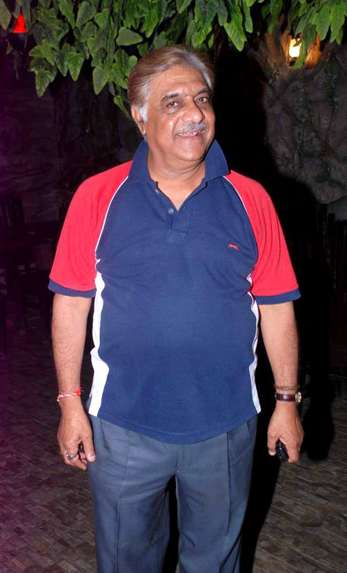 Anjan srivastava